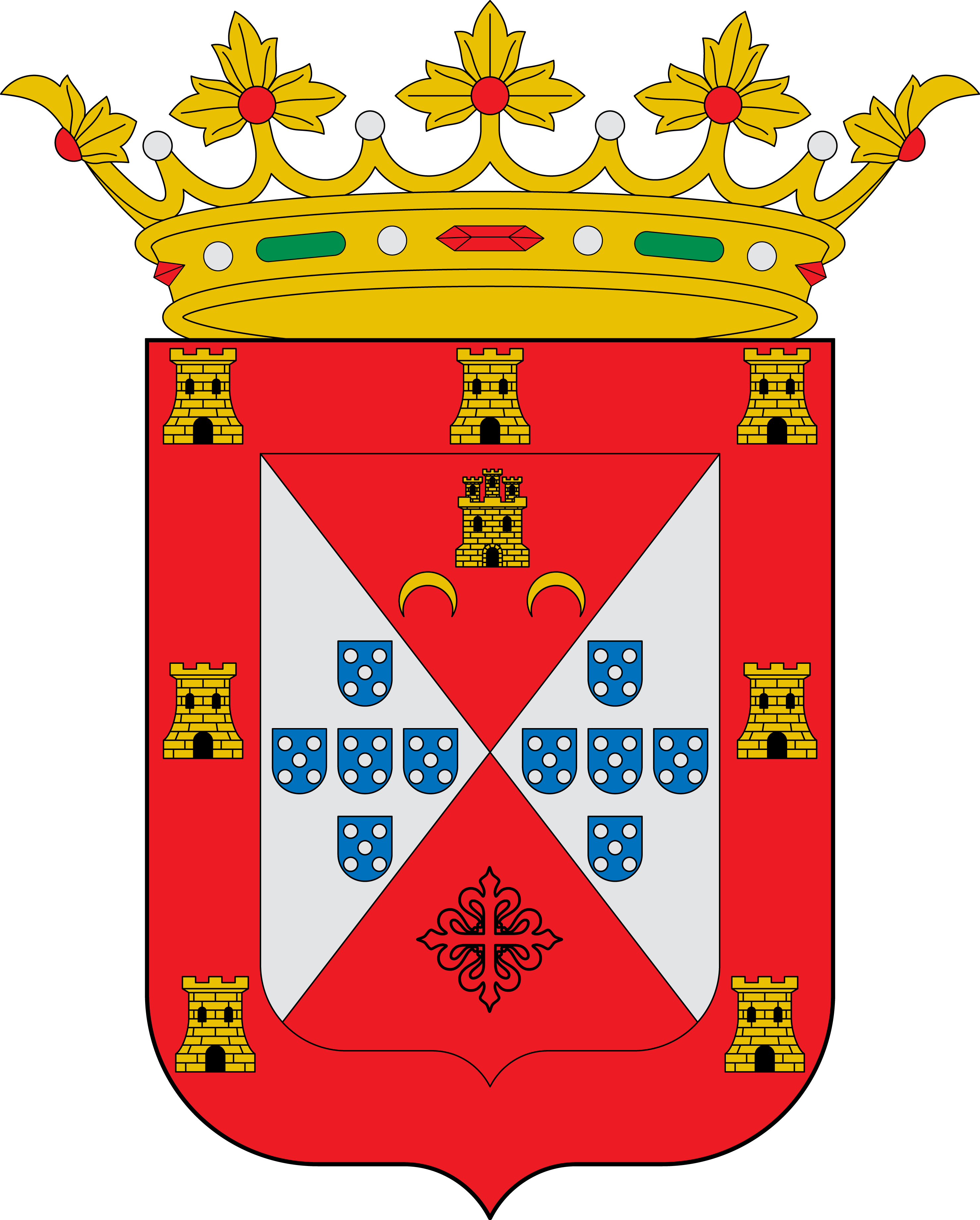 The emblem is a fusion from the old crests of the old municipalities of Torrequebradilla and Villargordo after its conformation into the actual municipality of Villatorres in 1975.